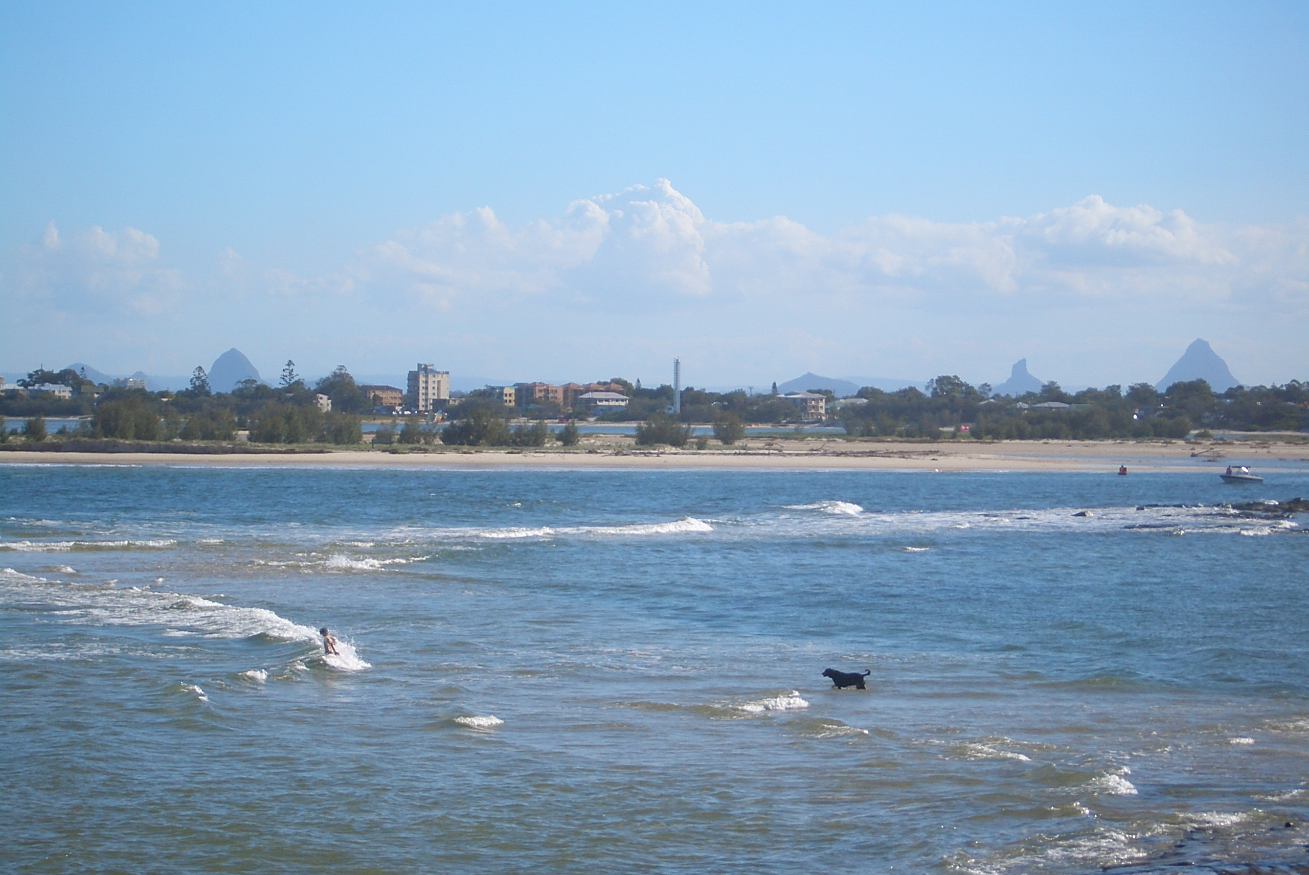 Seashore off Caloundra, with Bribie Island further out. Beyond Bribie Island, Pumicestone Passage, the mainland coast (town of Golden Beach), and Glasshouse Mountains.